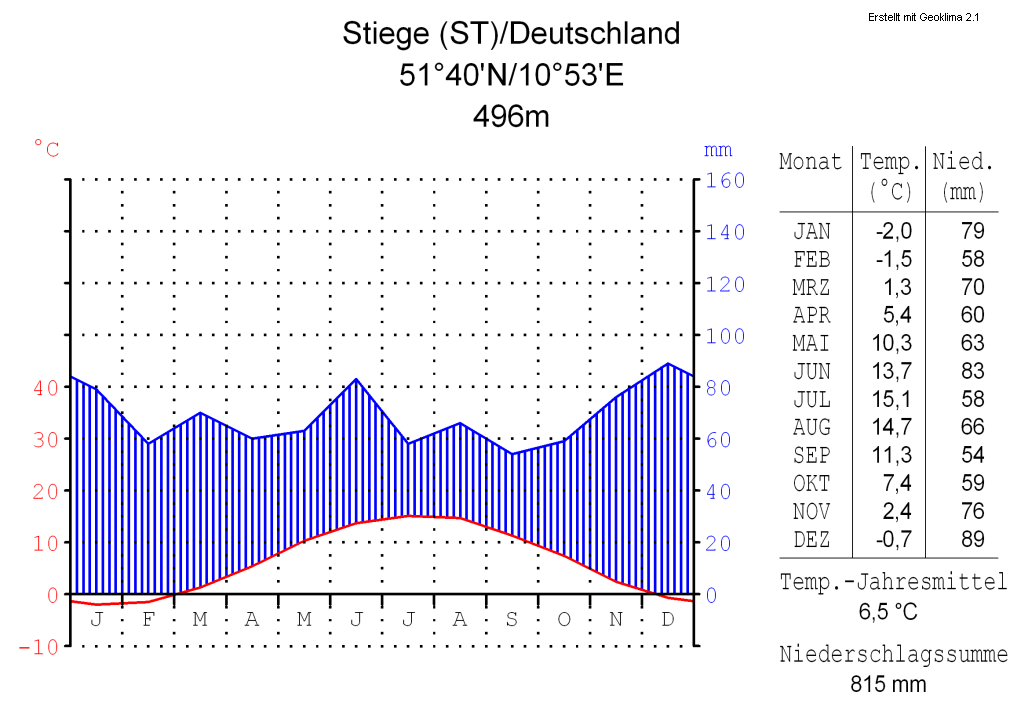 climate chart in the format by Walter and Lieth, metric, °Celsisus and millimeters, made with Geoklima 2.1